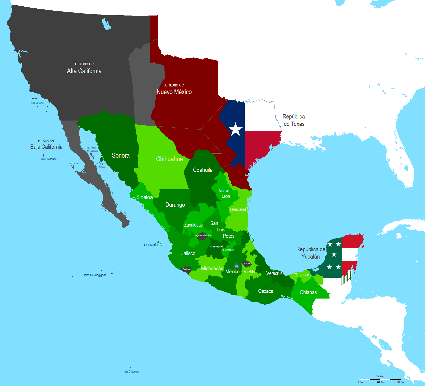 Map of Mexico 1842